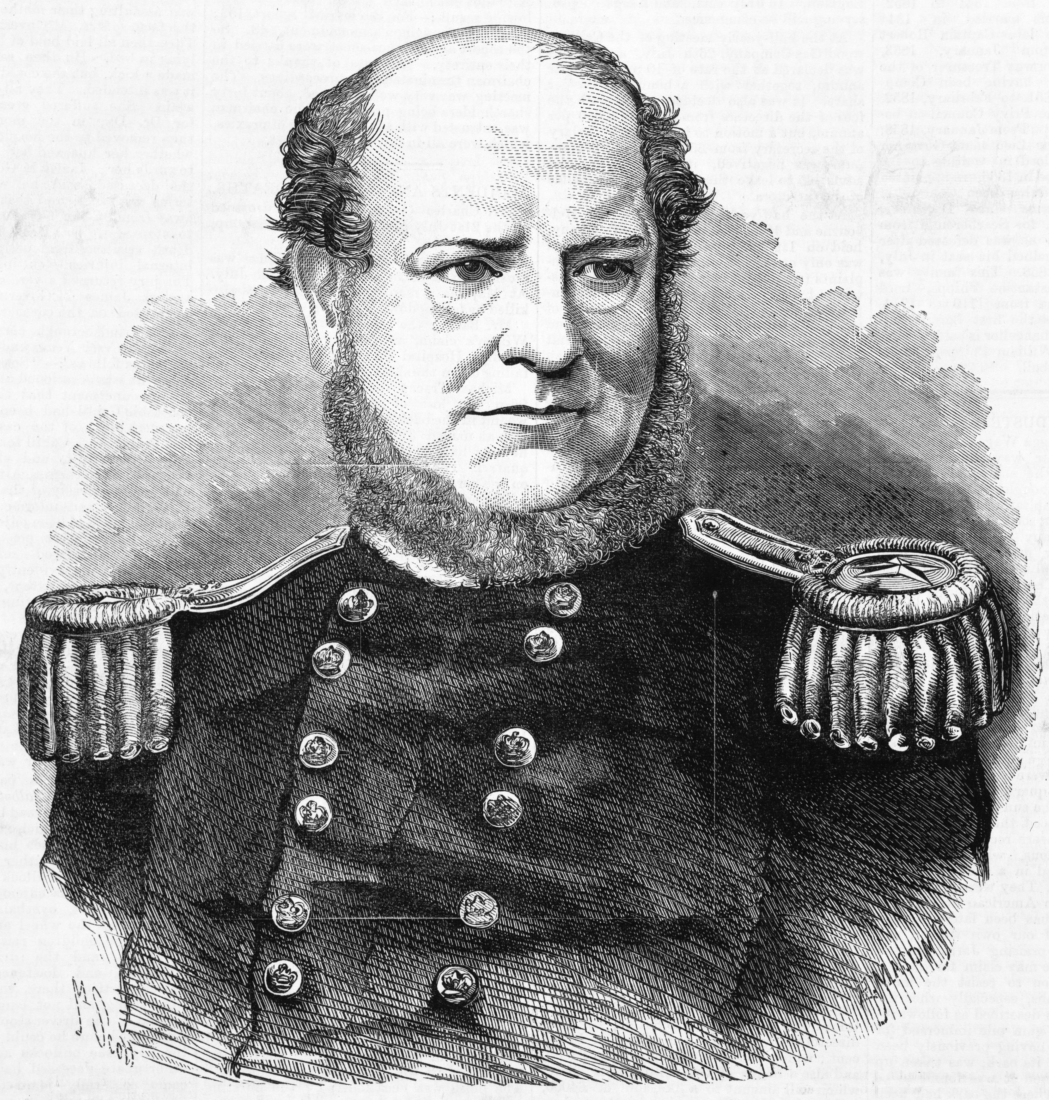 George Phipps, 2nd Marquess of Normanby (1819-1890)